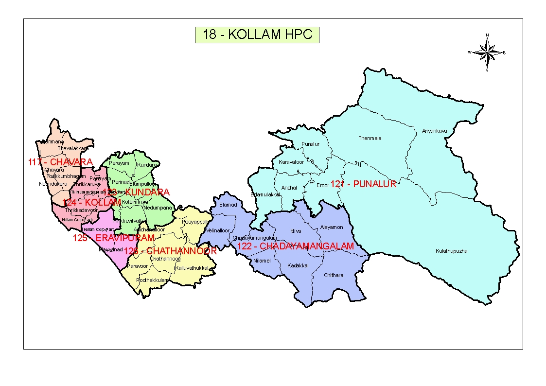 This is the map of Kollam Lok Sabha Constituency